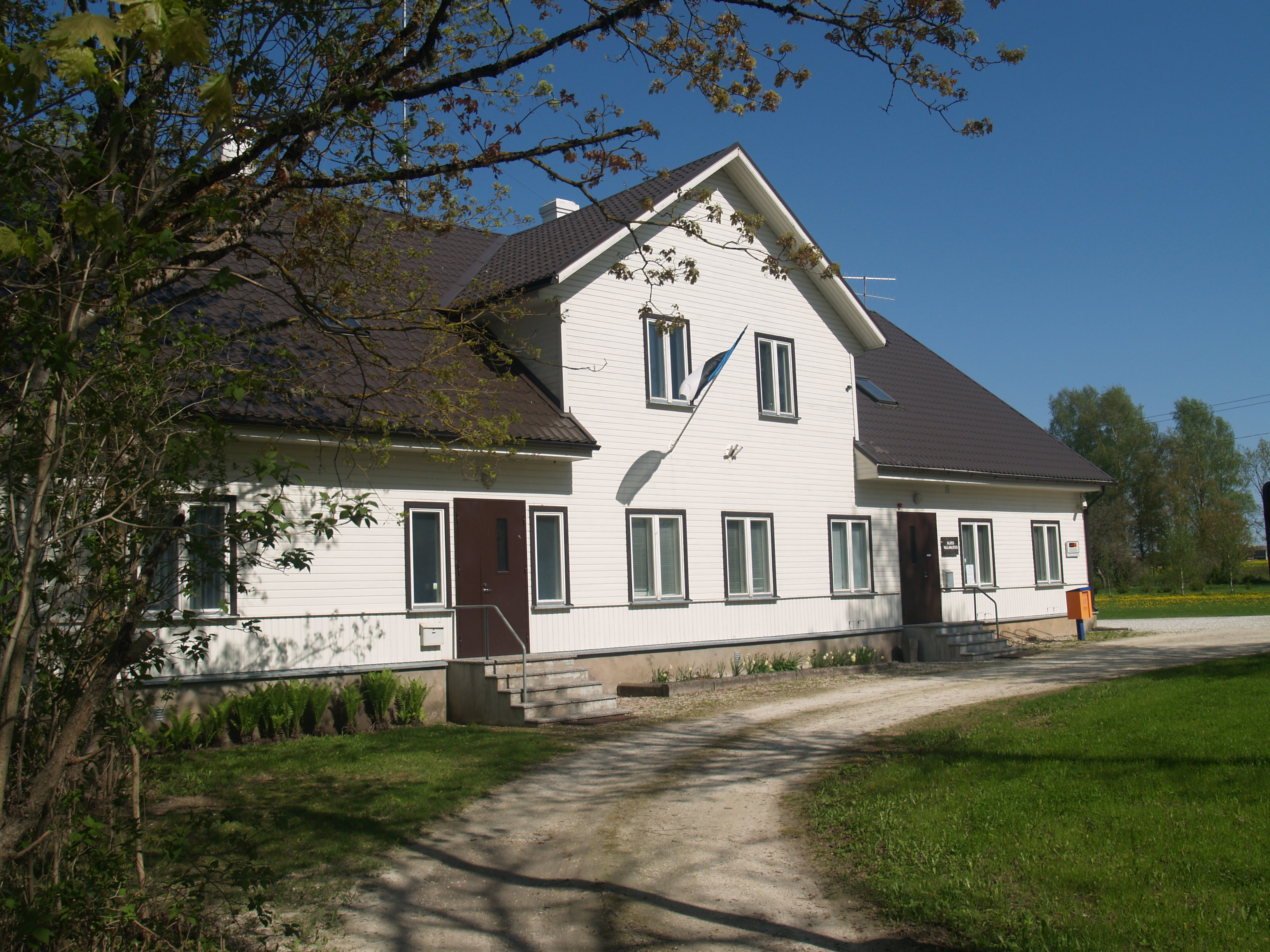 Pajusi vallamaja Kalana külas